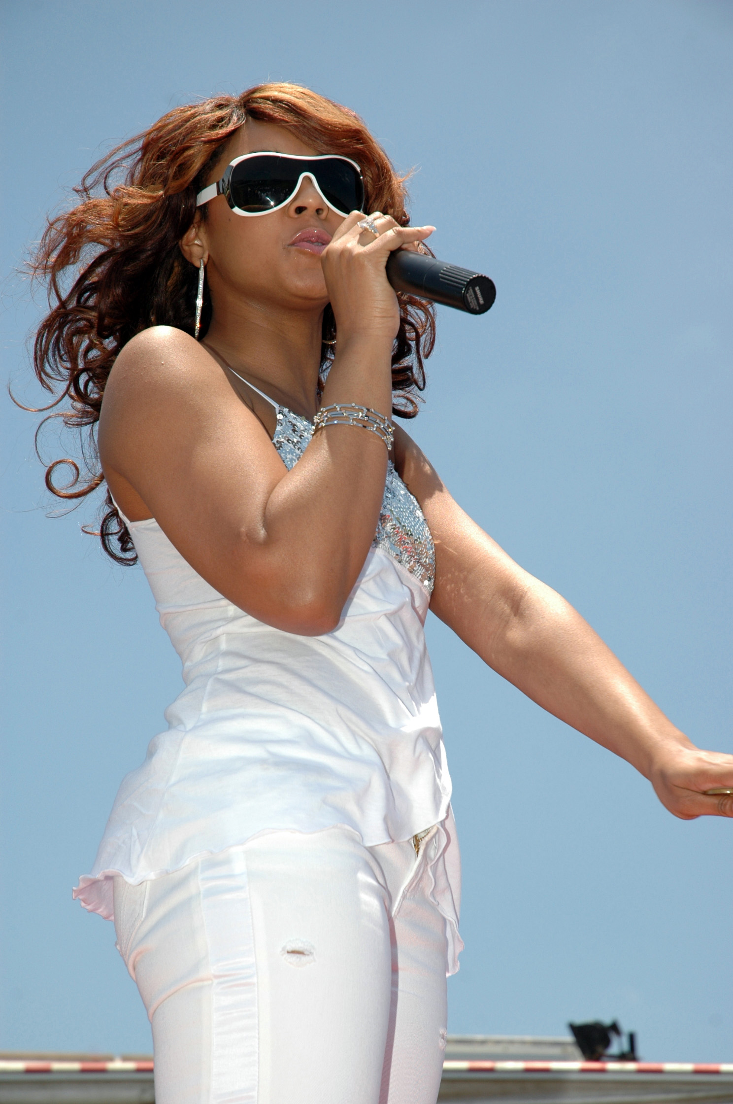 Rhythm and blues singer Ashanti, wearing all white, performs at Camp Hansen, Japan, June 5, 2005, after she speaks with U.S. Marines during a United Service Organizations tour.